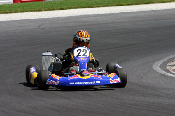 corrent a montmeló